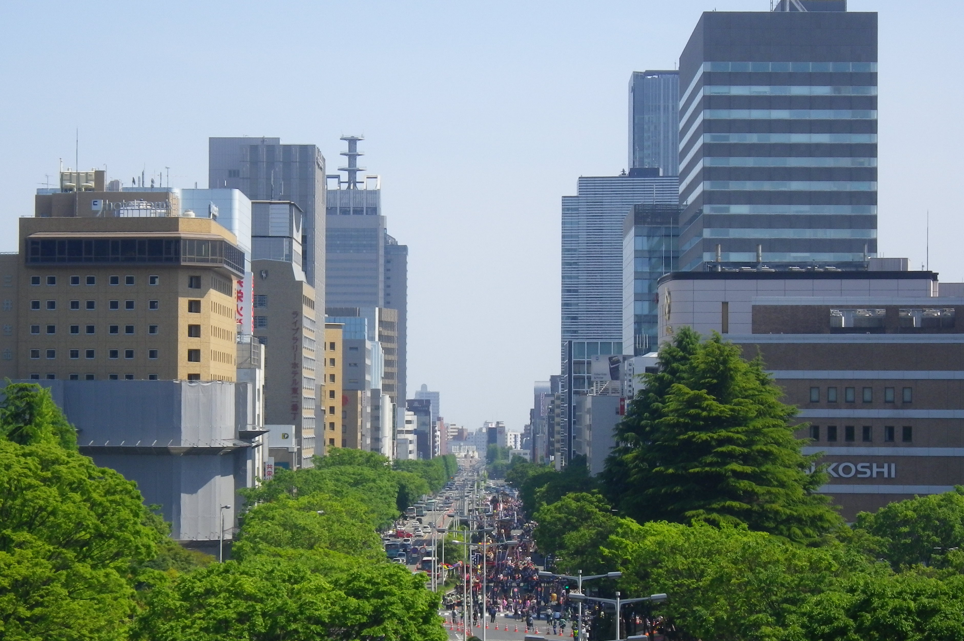 a parade of Sendai Aoba Matsuri held on Higashi-Ni-banchō-dōri avenue (the East 2nd avenue)